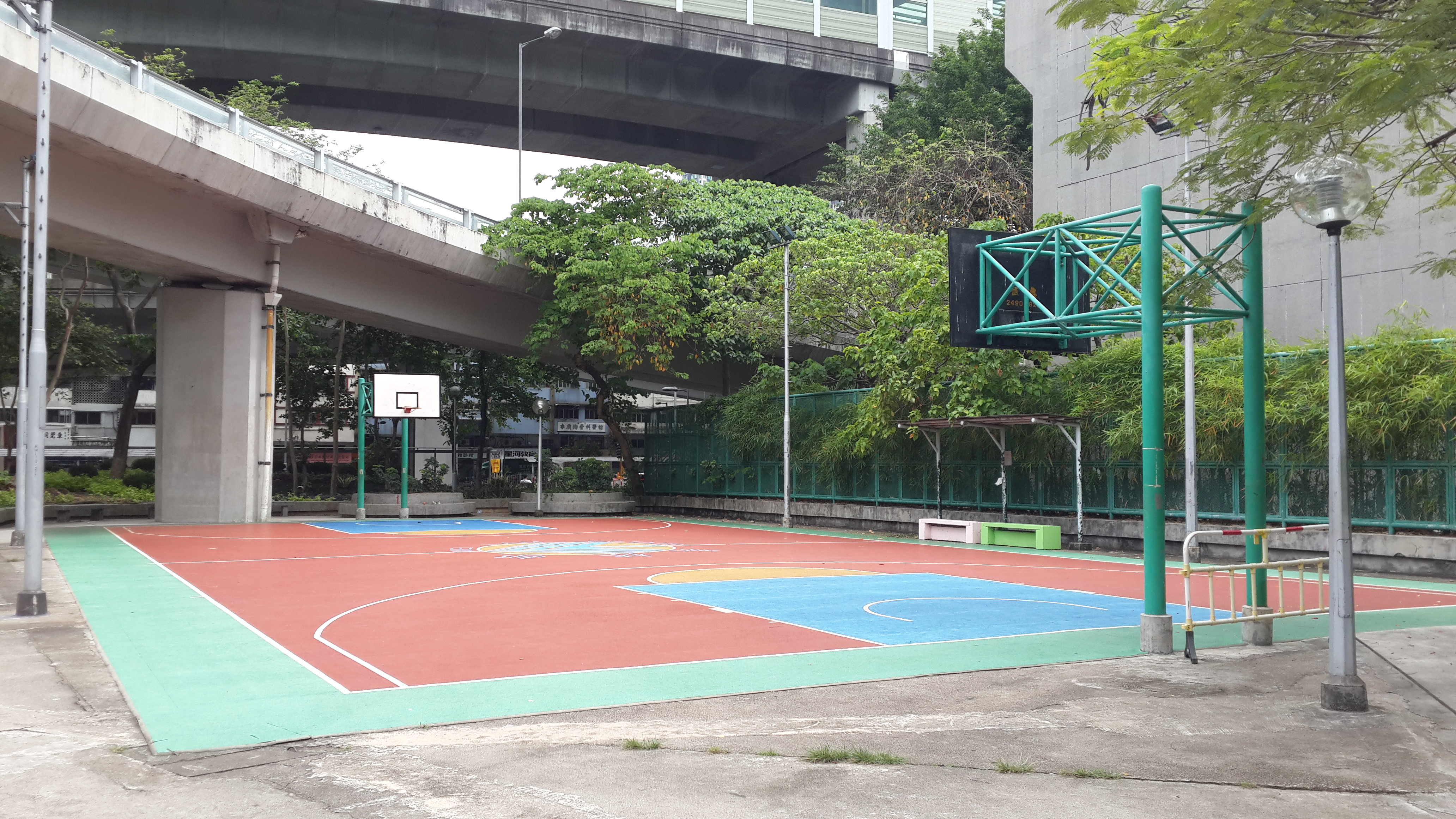 Mei Lam Estate Basketball court